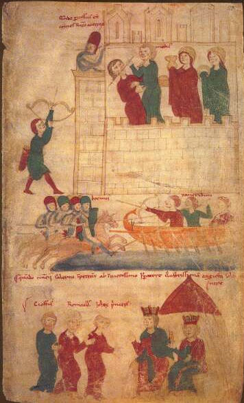 Liber ad honorem Augusti - fol.110r: Count Richard of Acerra Wonded/ Ambassadors from Salerno before the royal couple